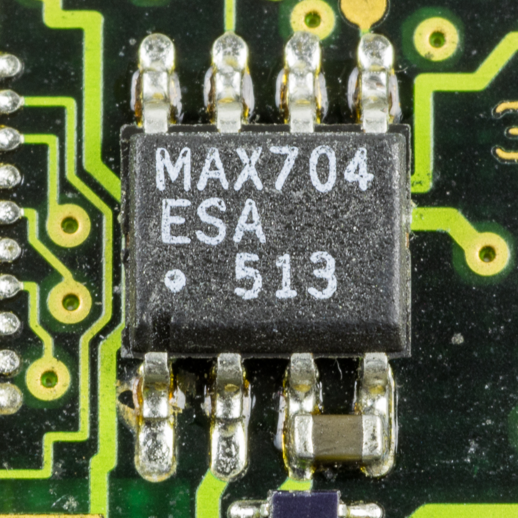 AEG Mobile Communication E-Plus PT-10 - mainboard - Maxim MAX703ESA - Low-Cost Microprocessor Supervisory Circuits with Battery Backup. Package: 8 SO